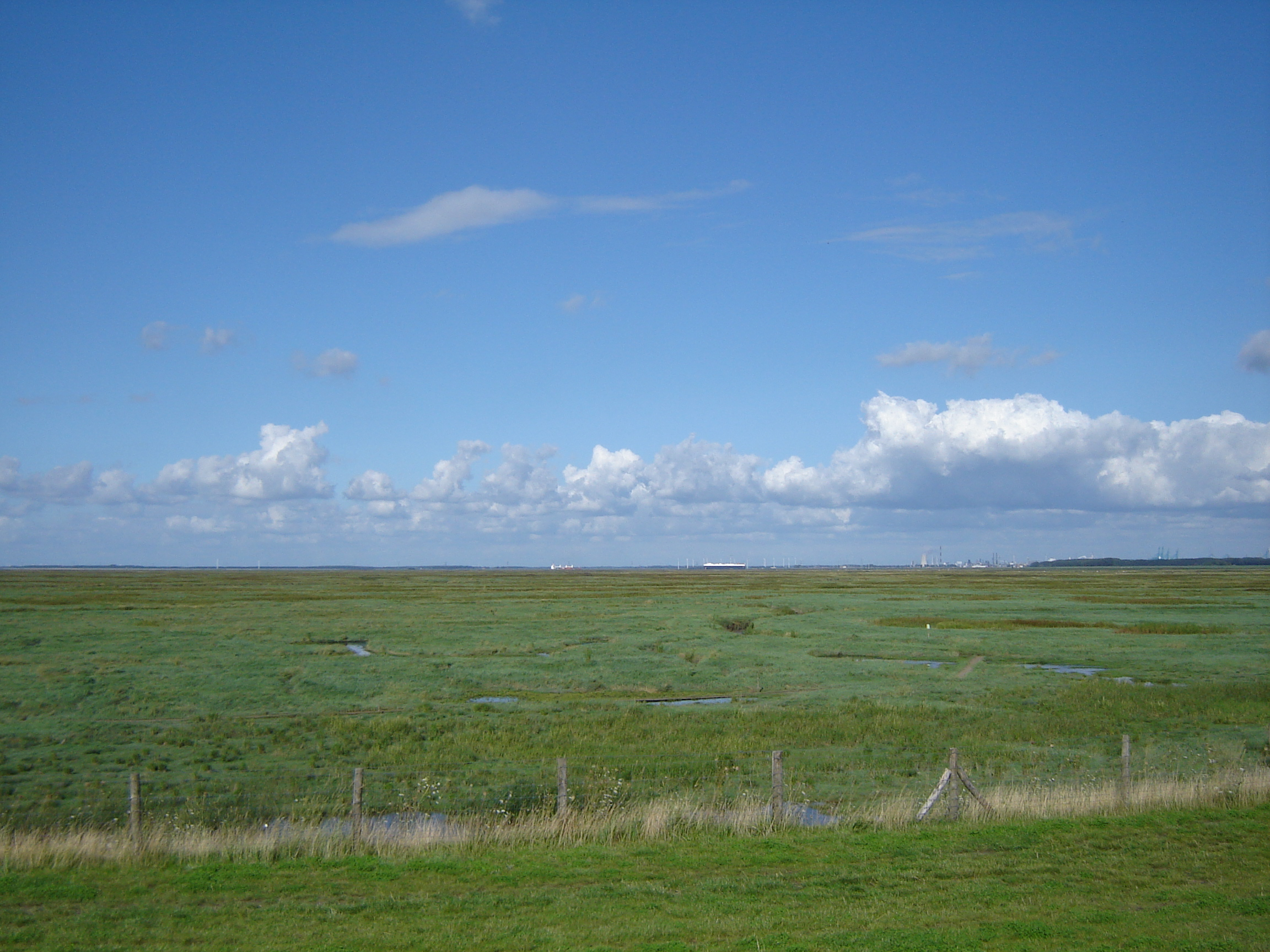 View on the "Verdronken Land van Saefthinge" (sunken land of Saeftinghe), seen from the dike at Emmadorp. Emmadorp, Hulst, Zeeland, Netherlands.